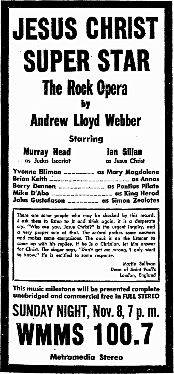 Print ad for radio station WMMS/Cleveland